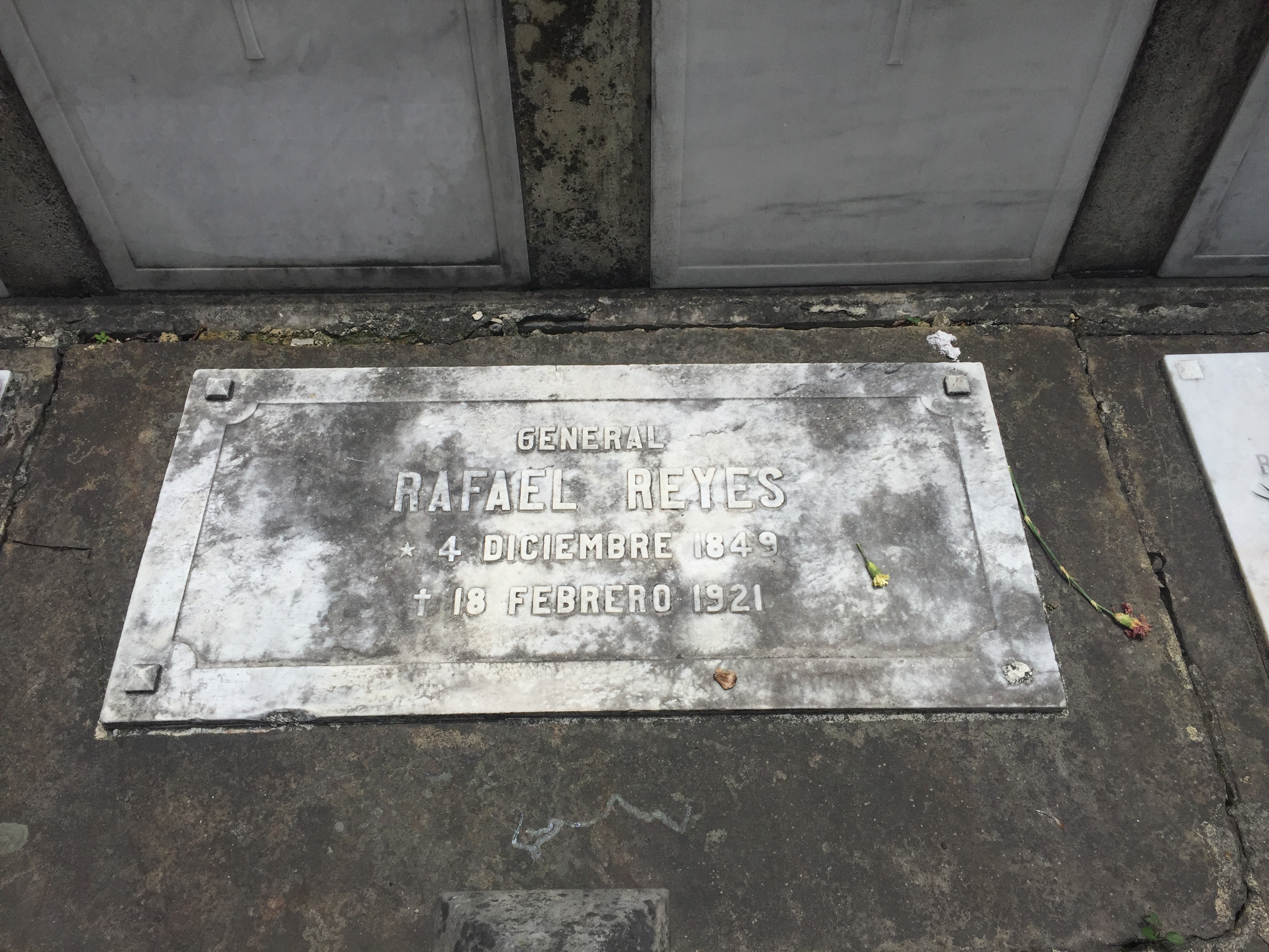 Grave of Rafael Reyes, President of Colombia.